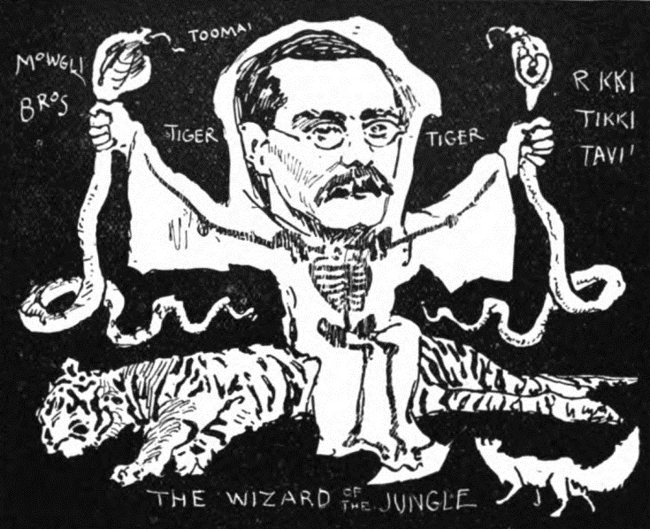 Rudyard Kipling.